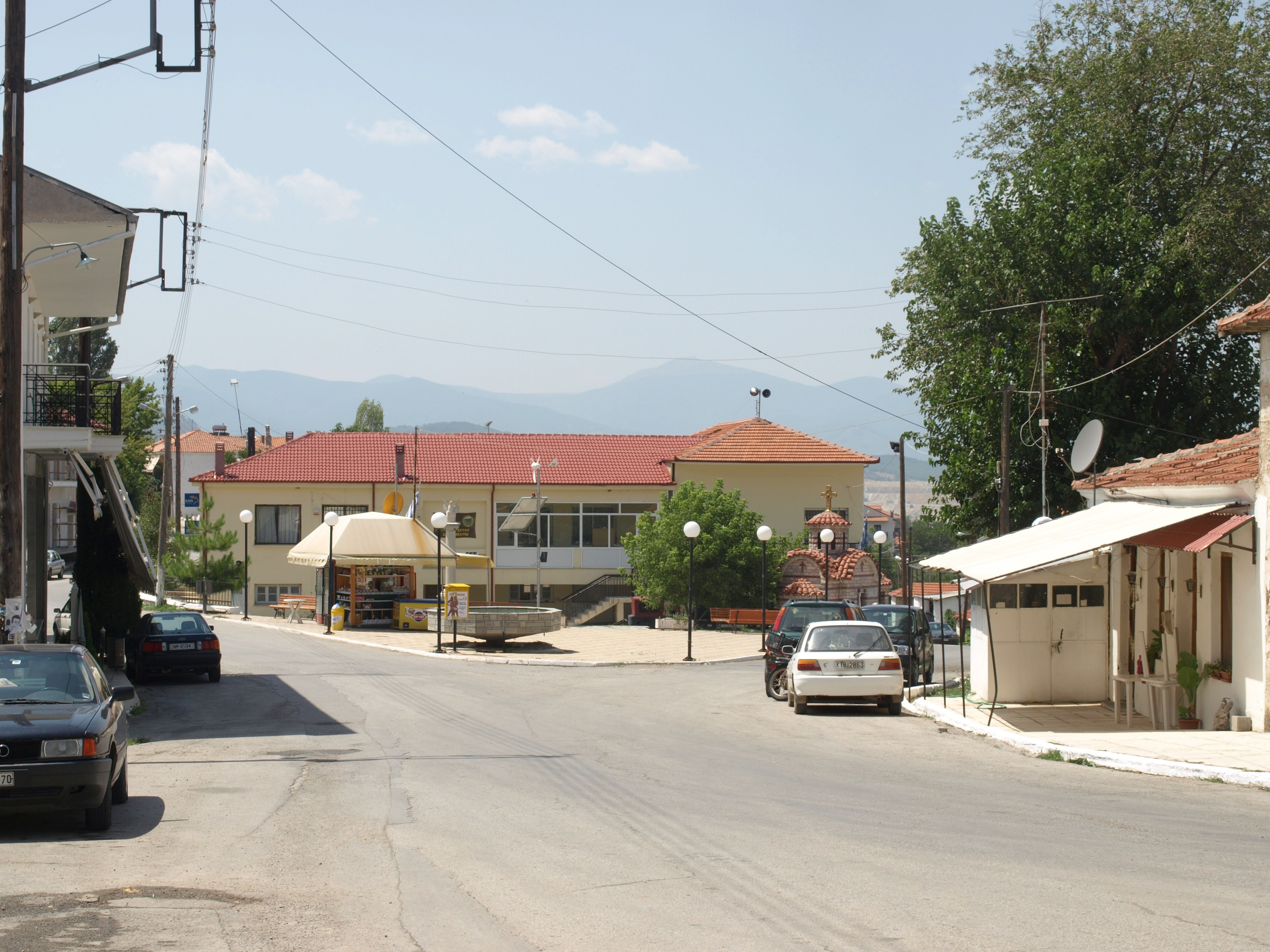 Community Center of Vevi in the Florina prefecture in Greece